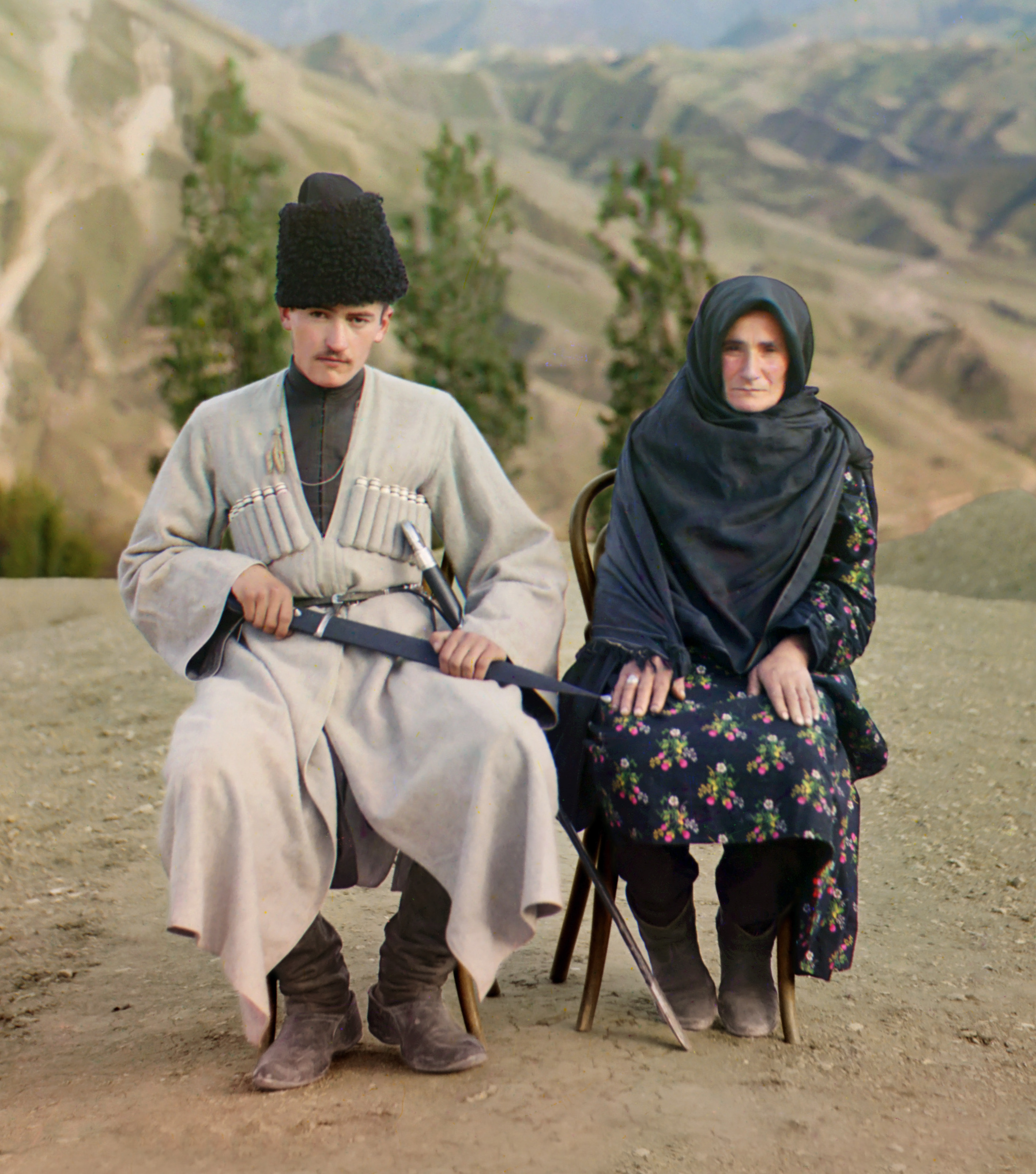 Original Description: Dagestani types. Man and woman posed outdoors.